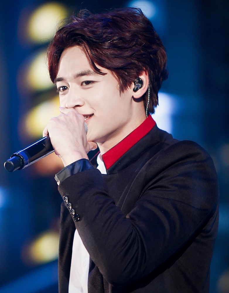 Minho at the SMTown Week on December 21, 2013.